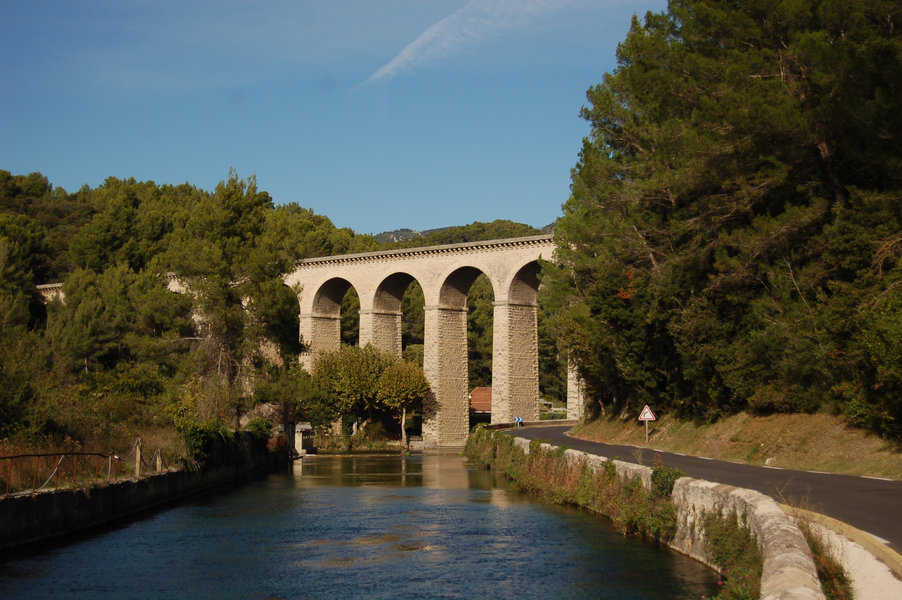 Aqueducts in Fontaine de Vaucluse